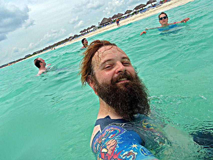 My own photo... of me, by me.